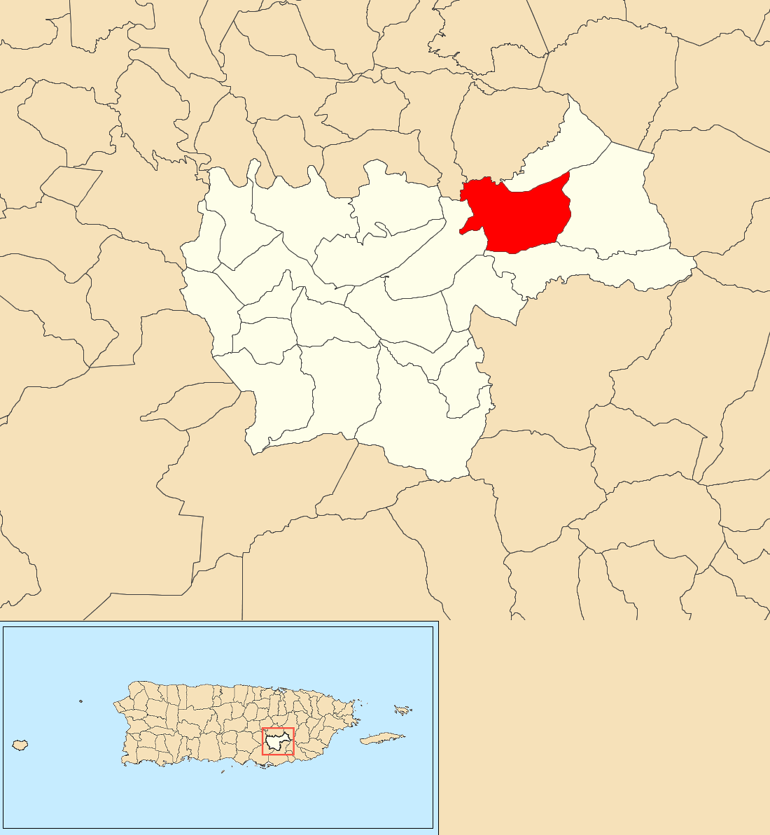 Vegas, Cayey, Puerto Rico locator map